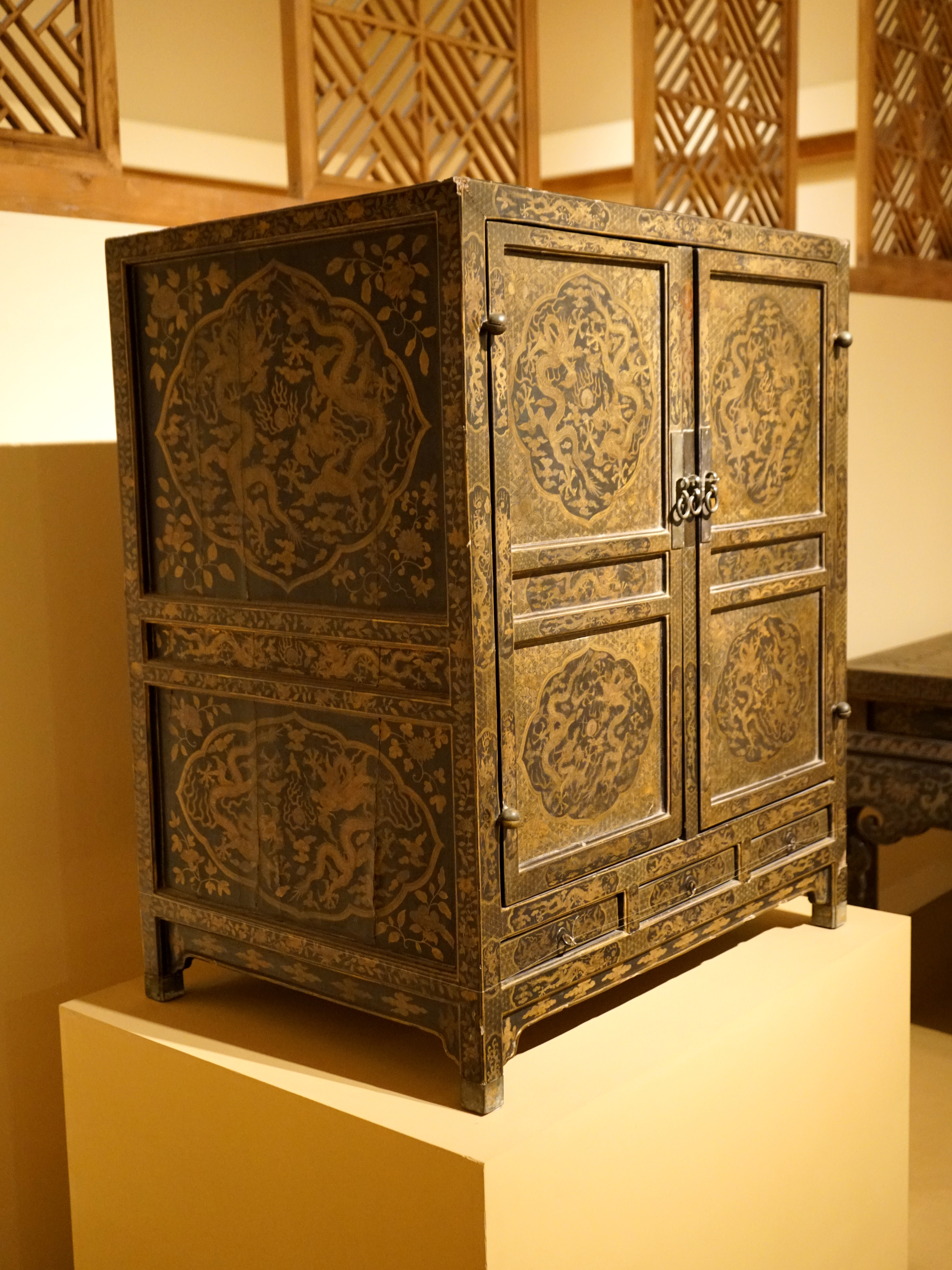 Black Lacquer and Gilt-Decorated Medicine Cabinet with Dragons and Phoenixes Pattern.